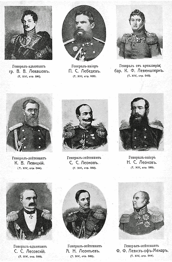 Generals of the Russian Empire